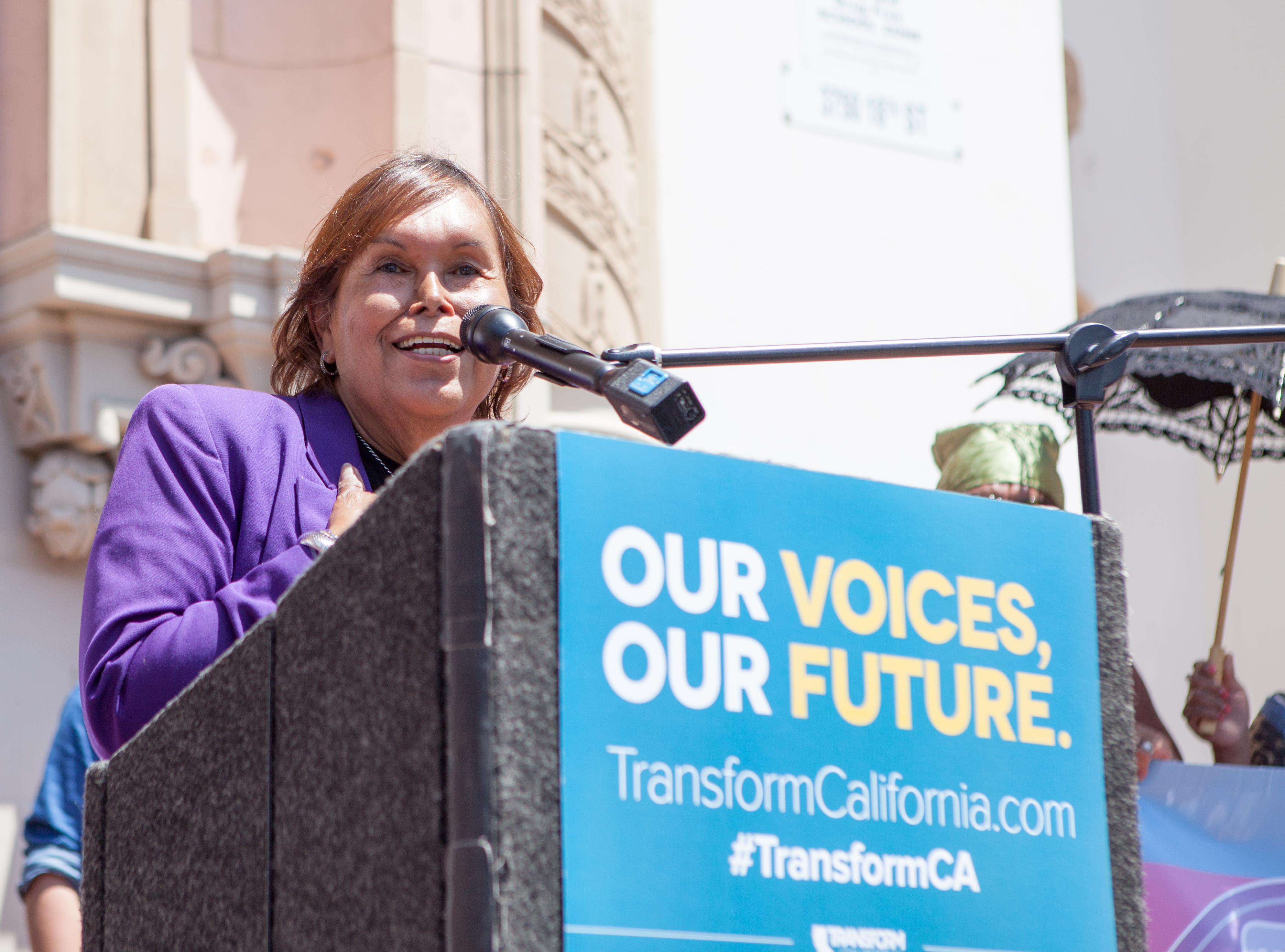 Trans activist Felicia "Flames" Elizondo at the Bay Area launch of Transform California in San Francisco.